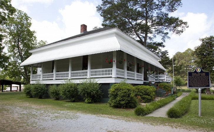 Boyhood home of Hank Williams in Georgiana, Alabama